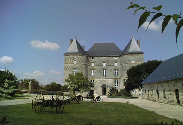 Castel of Doumely (France)